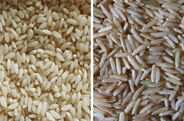 Comparison of two varieties of rice; Khyma, or kaima, (left) and basmati (right).